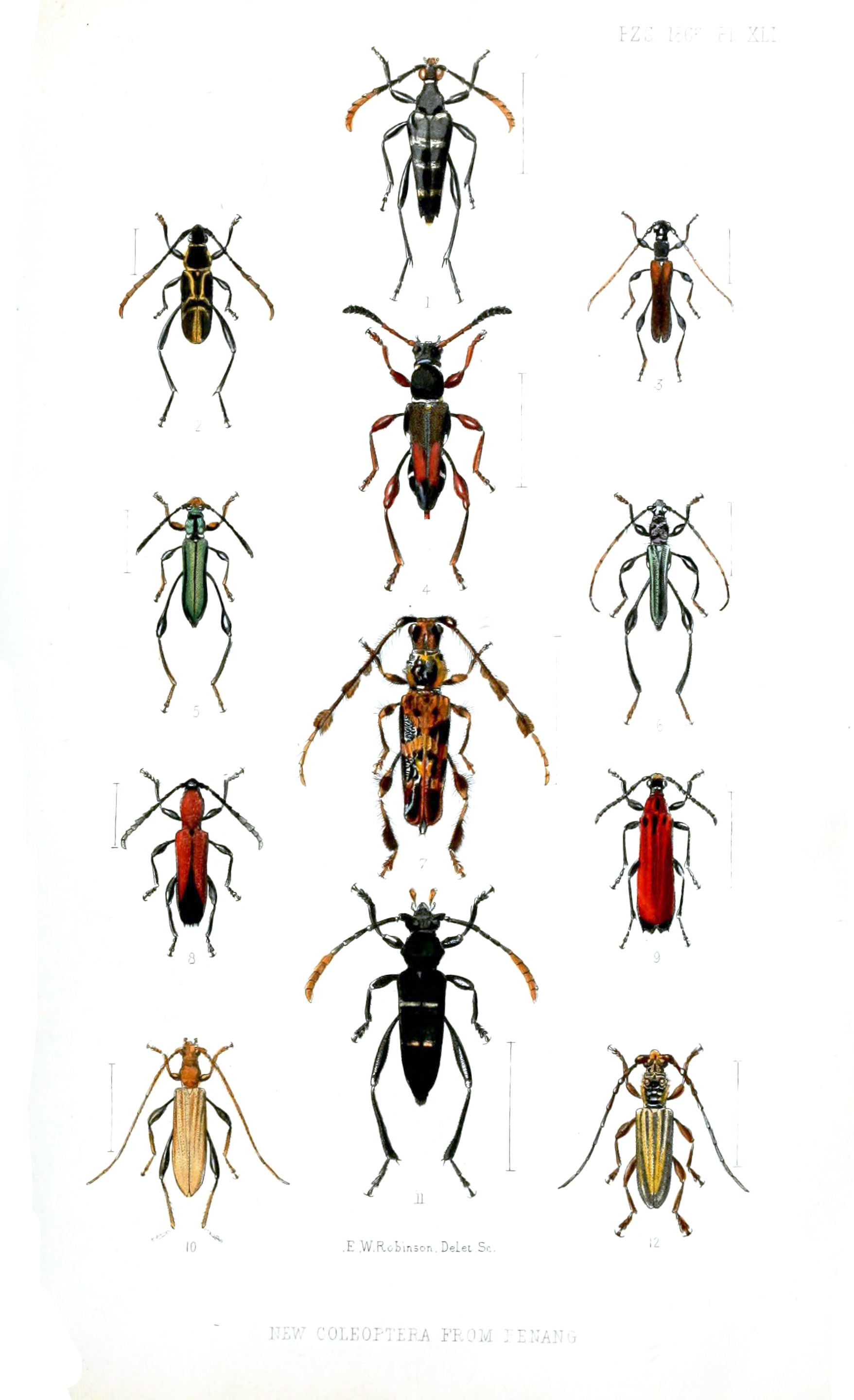 Longhorn beetles from Penang